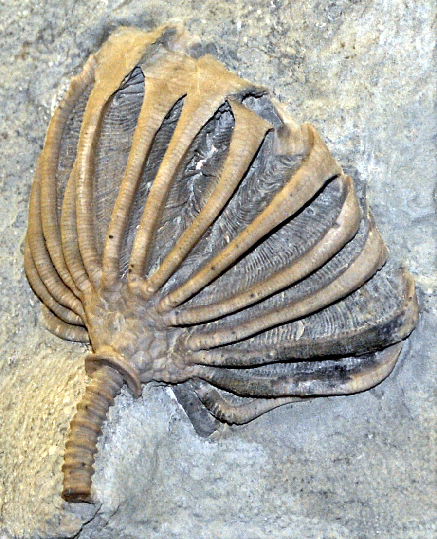 Fossil Eretmocrinus from Carboniferous of Indiana (U.S.A.), on display at the Museo Civico di Storia Naturale di Milano